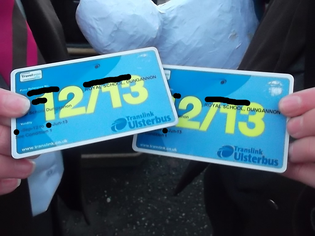 Ulsterbus Bus passes for students who live three miles away from their school.